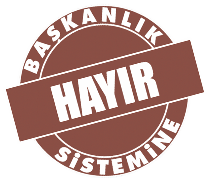 The Patriotic Party's 'NO' campaign logo for Turkish constitutional referendum, 2017